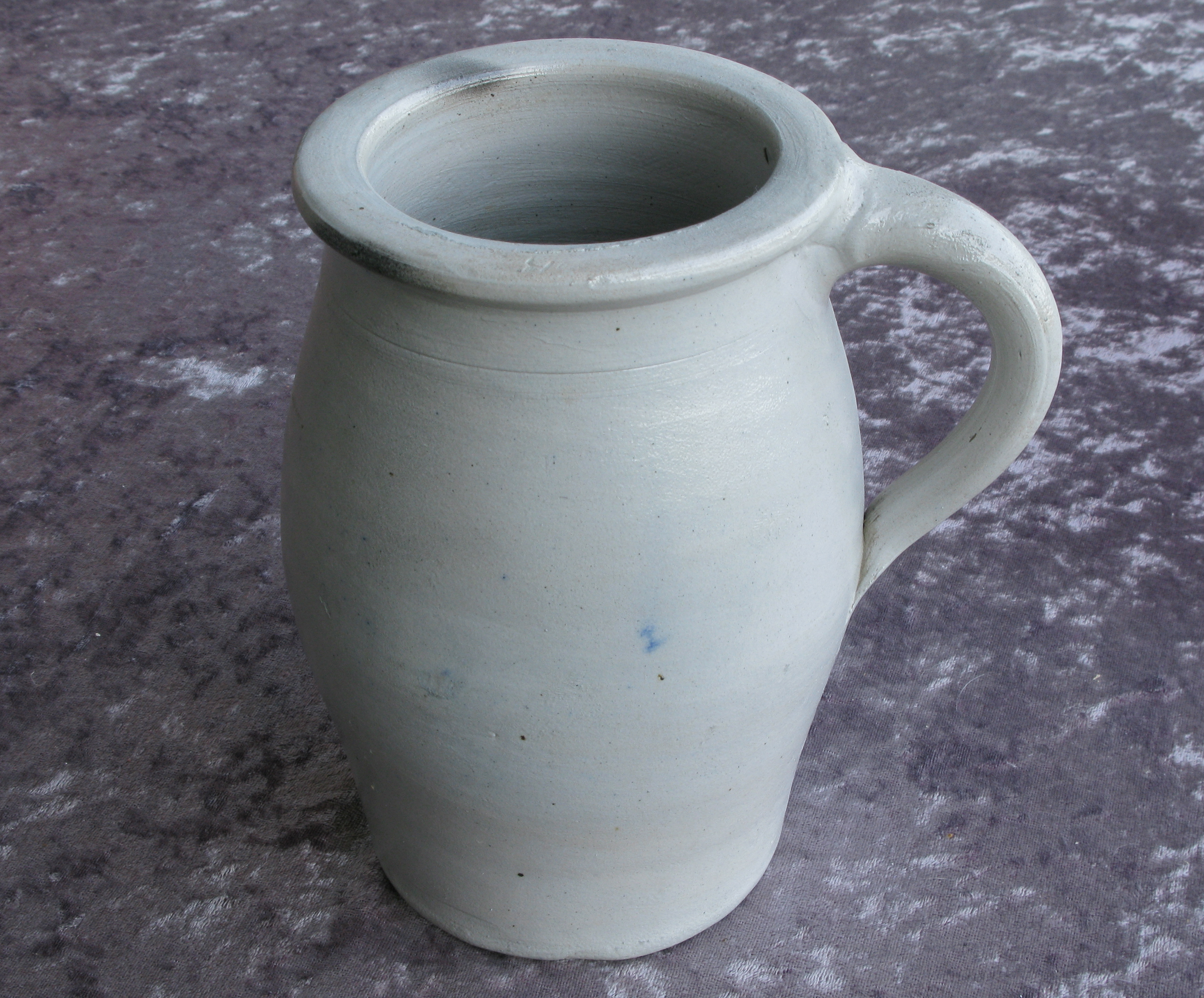 Old jar made of gray stoneware.